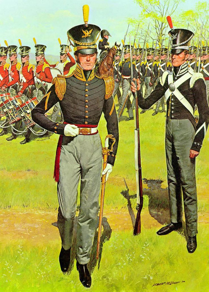 Title: The American Soldier, 1827: Artillery Officer, Infantry Sergeant, Fort Monroe, Va. Artillery School Troops. The Artillery School of Practice appears as it did in 1827. In the center foreground is a captain of artillery; in background is an artillery detachment headed by company musicians.